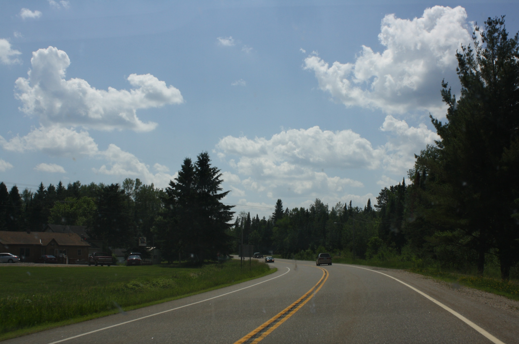 Looking south at Popple River (community), Wisconsin on Wisconsin Highway 139.